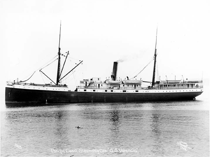 The SS Valencia in 1904. Source: University of Washington Digital Collections